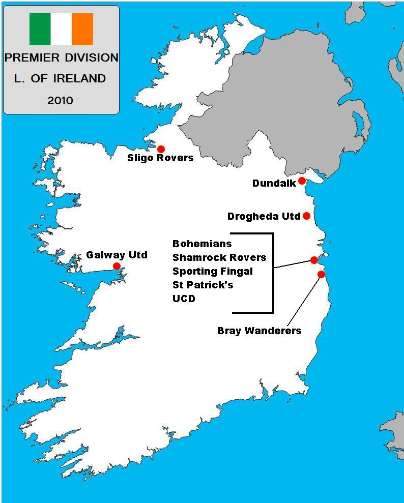 2010 League of Ireland Premier Division teams geographic distribution.